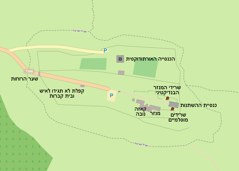 Map of Mt Tabore